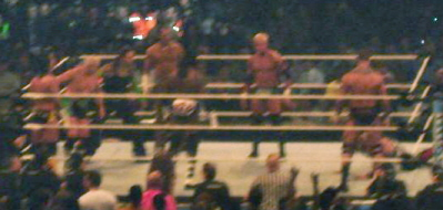 All of the participants of the Money in the Bank ladder match at WrestleMania 23 are in the ring before the match. From left to right CM Punk, Finlay, Jeff Hardy, Matt Hardy, King Booker, Mr. Kennedy, Randy Orton, and sliding into the ring Edge. (Cropped from flickr)